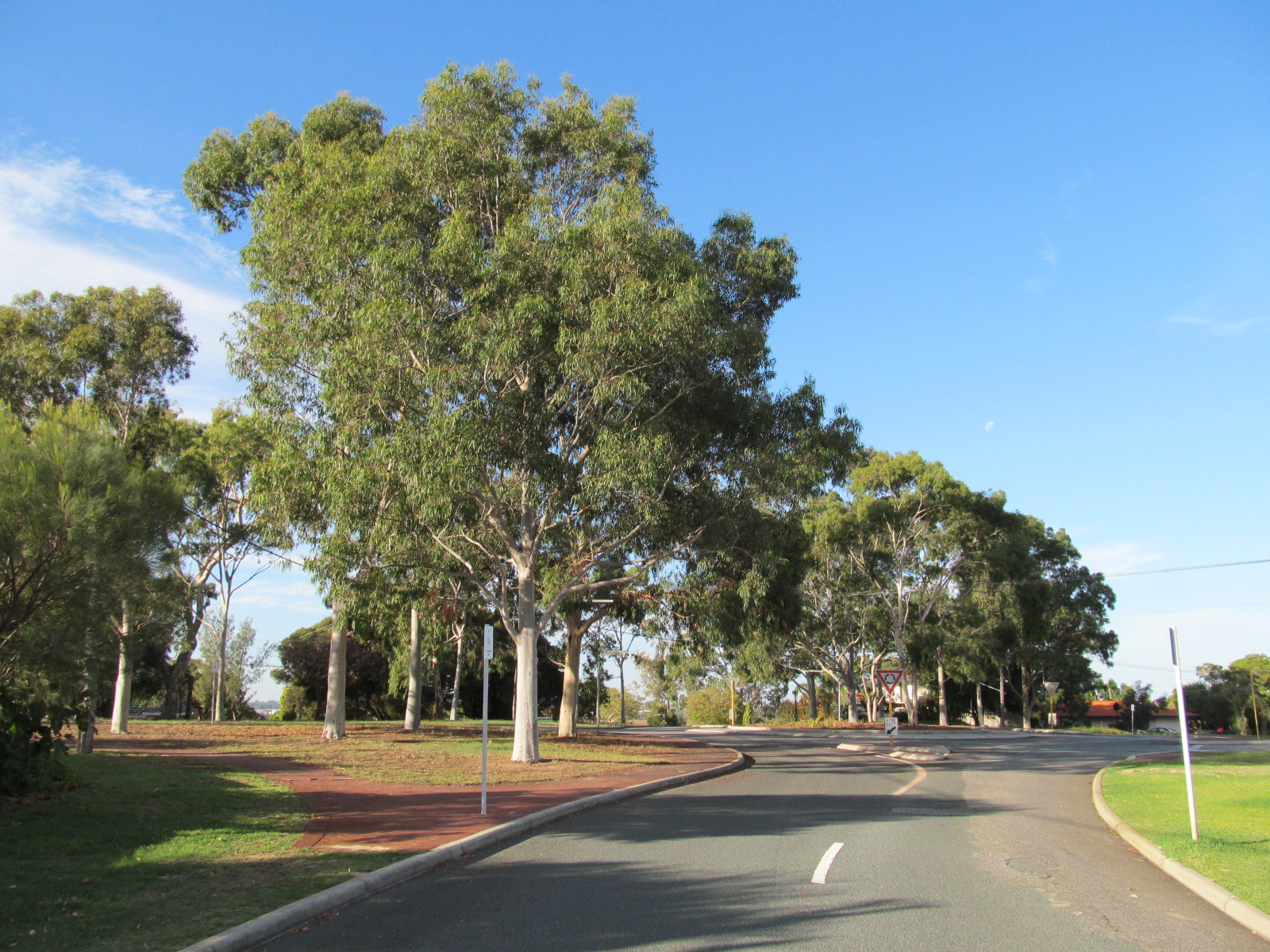 Ghost gums at the northern end of Kirkdale Avenue, Floreat, Perth, Australia.